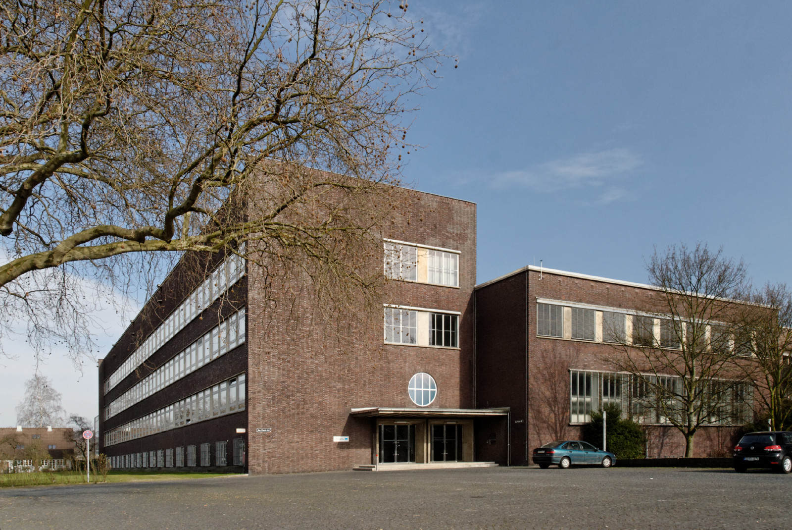 House Max-Planck-Straße 1 in Düsseldorf-Düsseltal, Germany